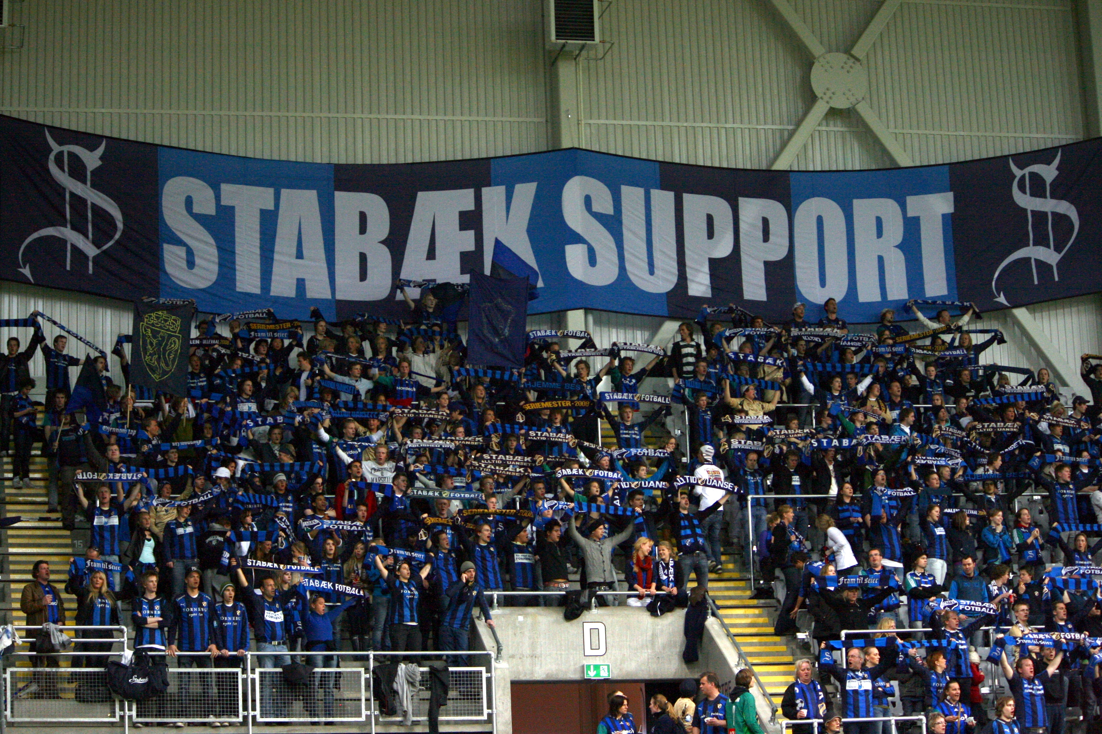 Stabæk Support, the fan club of the Norwegian football club Stabæk.